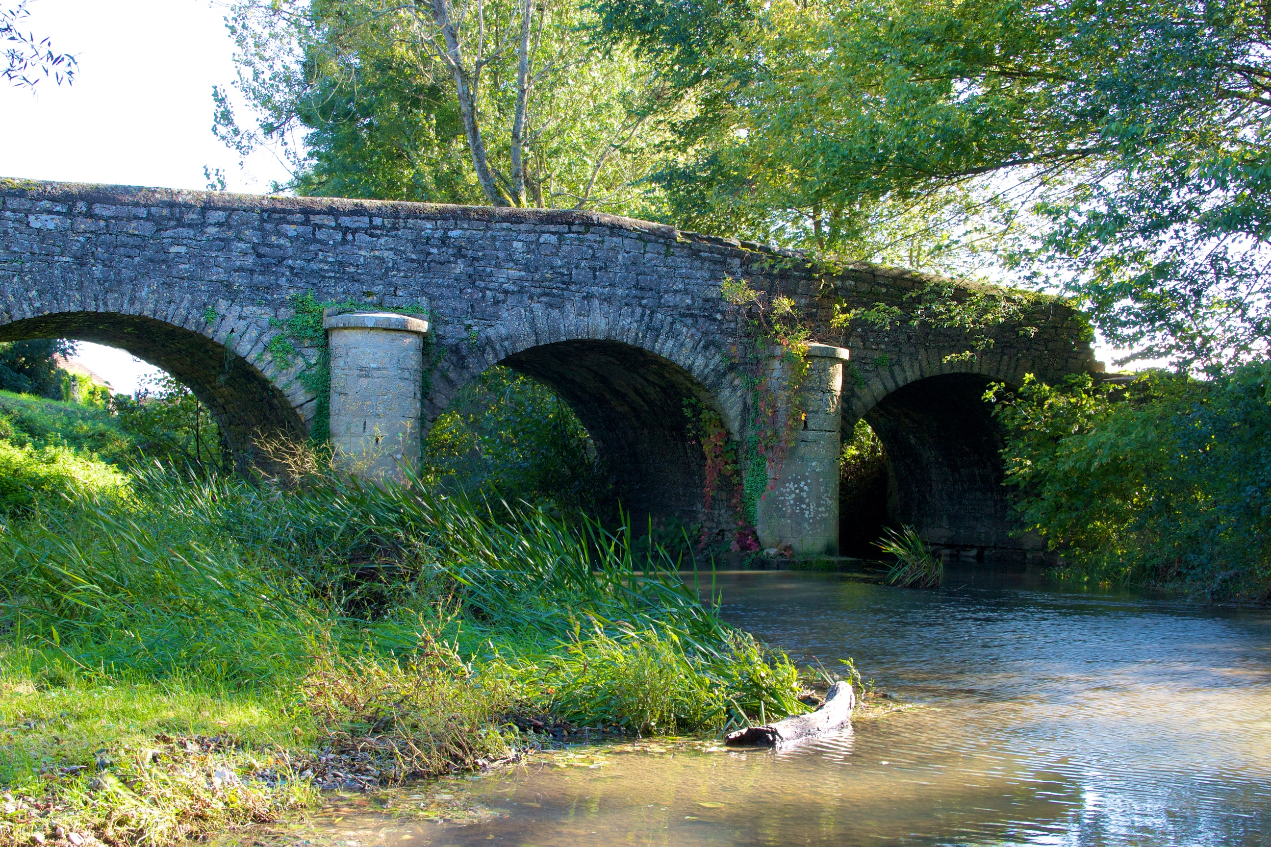 It is indexed in the Base Mérimée, a database of architectural heritage maintained by the French Ministry of Culture, under the references PA39000054 and PA39000055 .